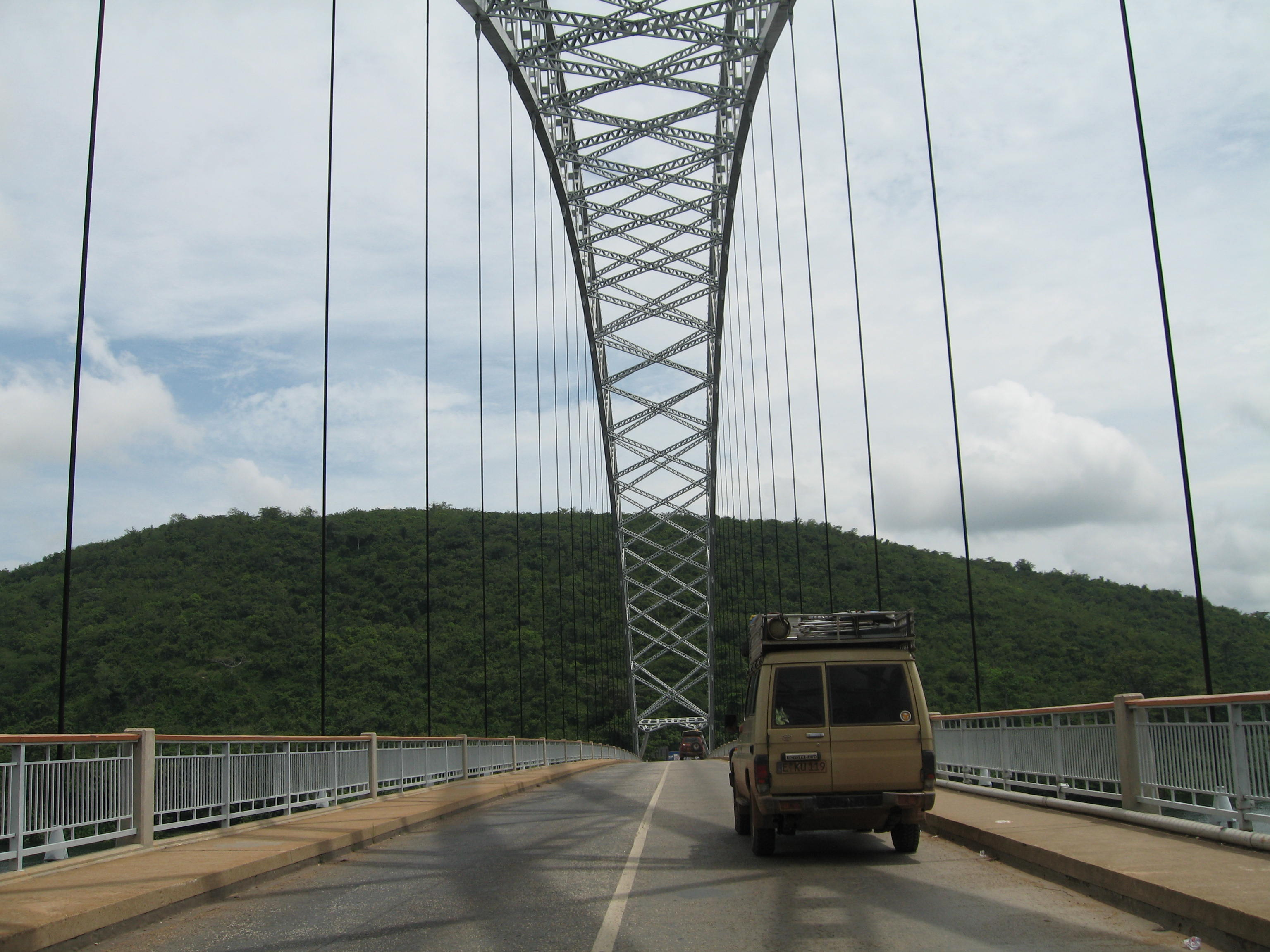 Nice bridge, close to Akosombo Dam